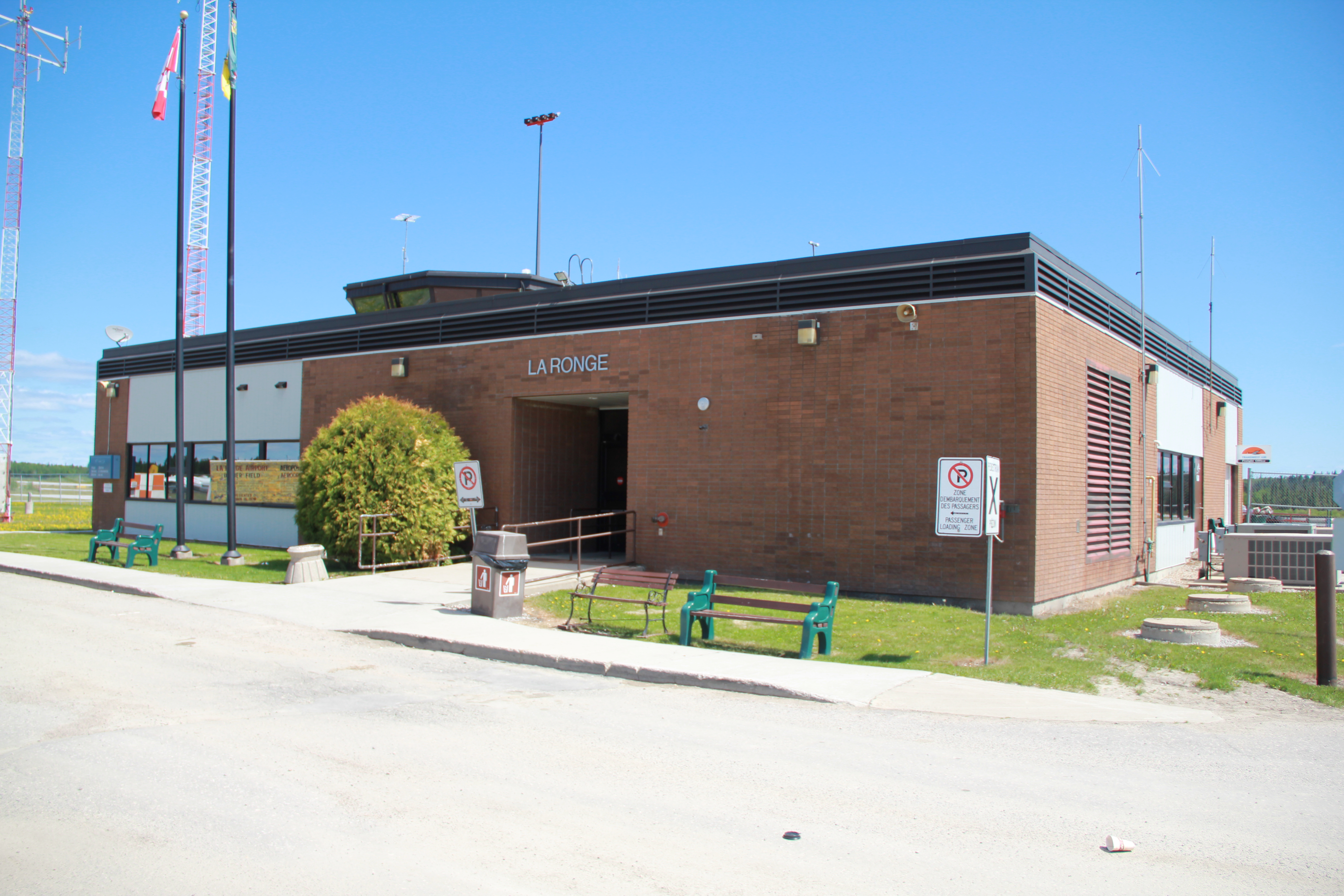 La Ronge (Barber Field) Airport, located 2 NM (3.7 km; 2.3 mi) northeast of La Ronge, Saskatchewan, Canada.